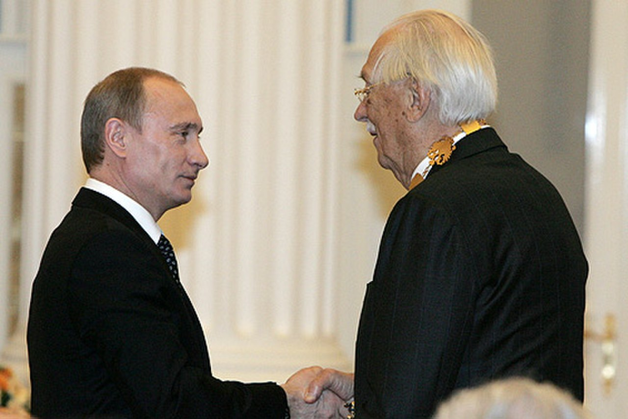 THE KREMLIN, MOSCOW. Ceremony for the presentation of state awards. Sergei Mikhalkov receives The Order of St Andrew the Apostle.